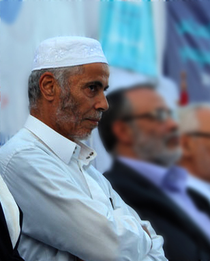 Sadok Chourou